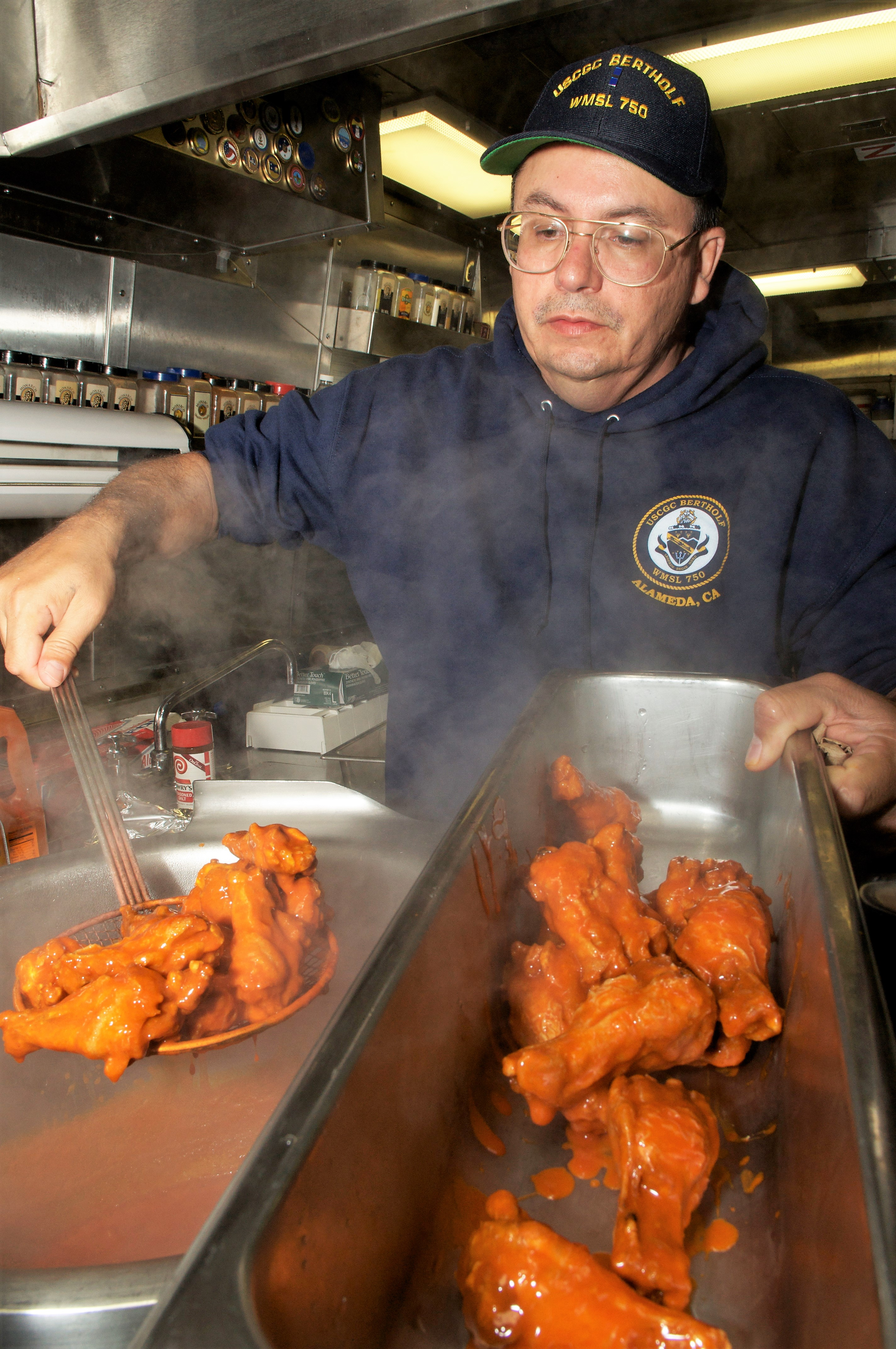 Chief Warrant Officer Antonio Pariga, U.S. Coast Guard Cutter Bertholf’s temporarily assigned Supply Officer, prepares spicy Buffalo wings during morale night Saturday, Aug. 8, 2009. The Warrant Officer’s and a few Chiefs hosted Saturday’s evening meal to contribute to the morale of the ship and ease the workload for the food service specialists who get to enjoy a night off.